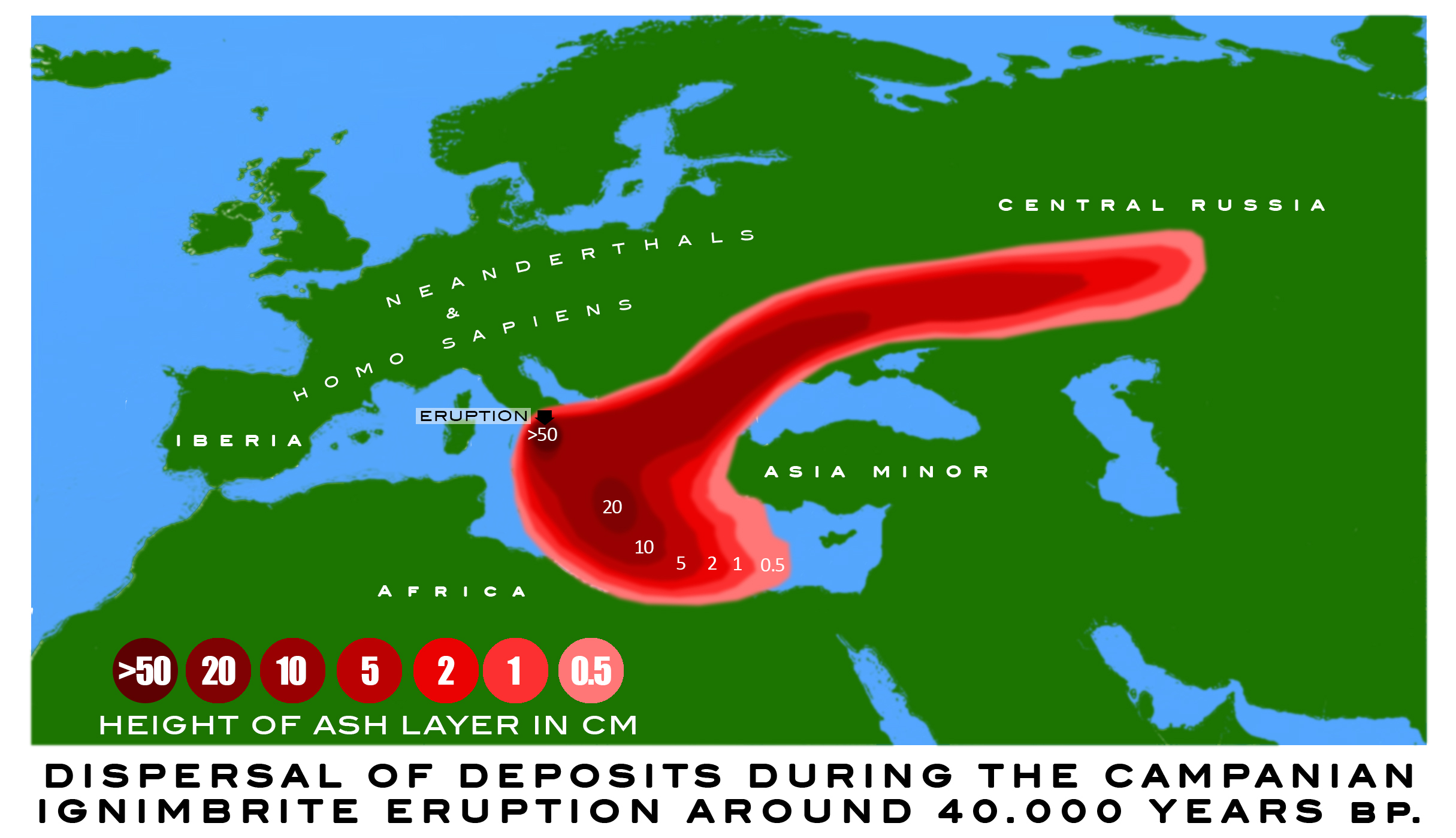 graphic of deposit dispersal during the Campanian Ignimbrite Eruption 40.000 years ago based on [1]